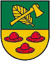 Coat of arms of Sankt Johann am Walde, Upper Austria